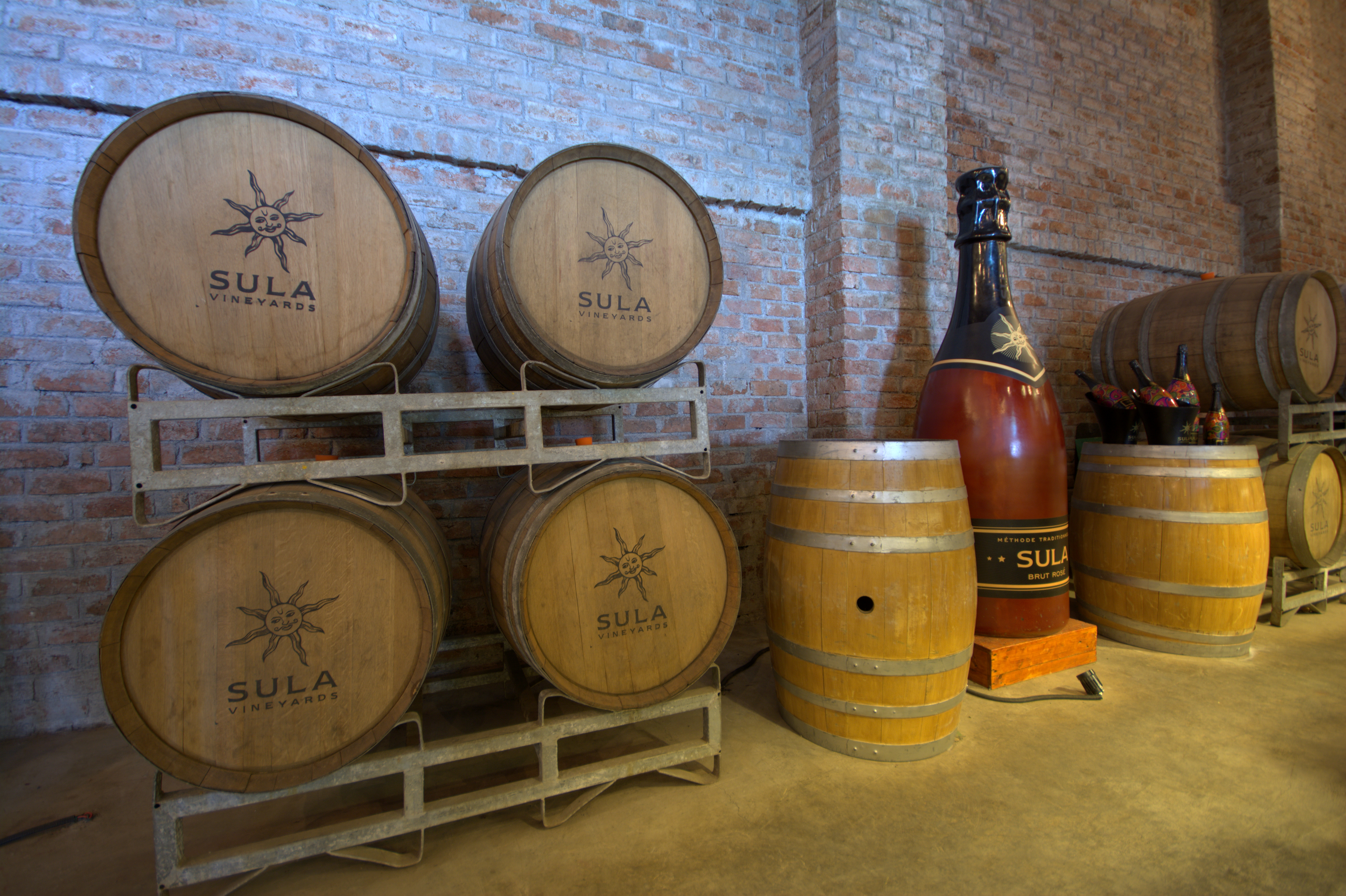 Image of Sula's wine and champagne at their vineyards in Nashik